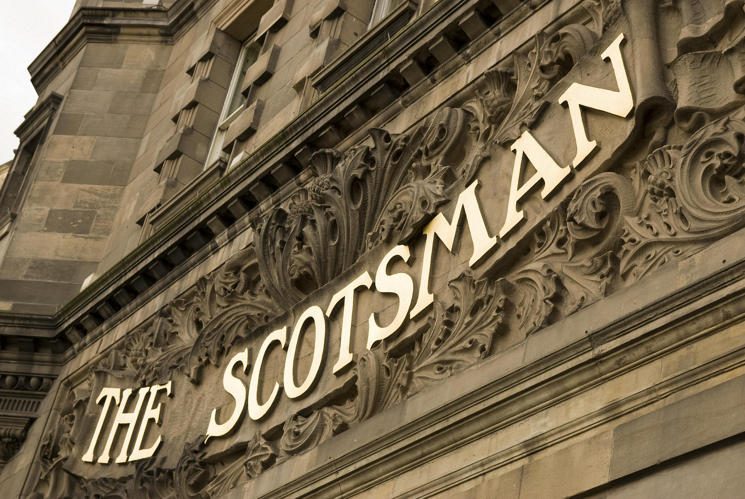 Close up of the original brass sign of Scotsman Newspaper, which still takes pride of place outside the building